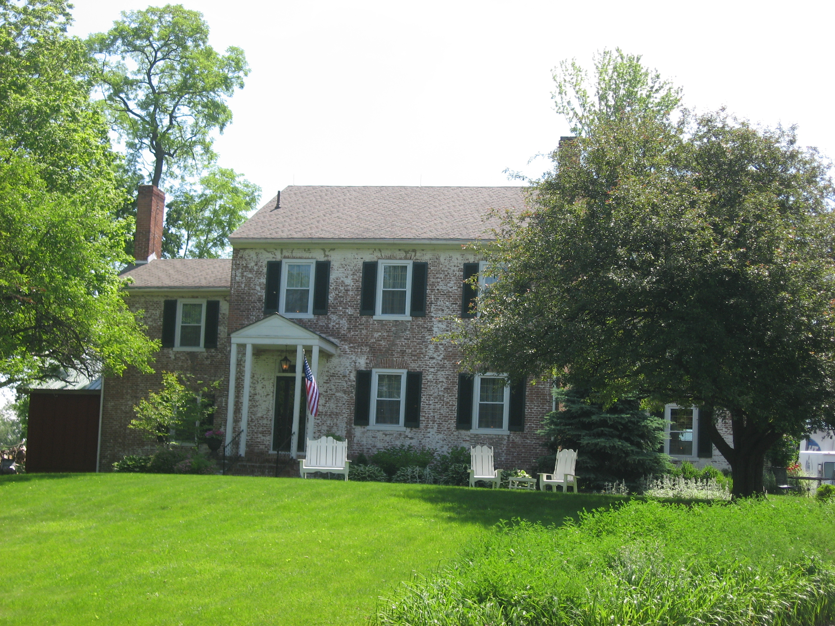 Front of the farmhouse at the Kenton-Hunt Farm, located at 4690 Urbana Road (State Route 72) north of Springfield in Moorefield Township, Clark County, Ohio, United States. Here Simon Kenton lived before the farmhouse's construction. Built in 1828 and since converted to an inn, the farm is listed on the National Register of Historic Places.